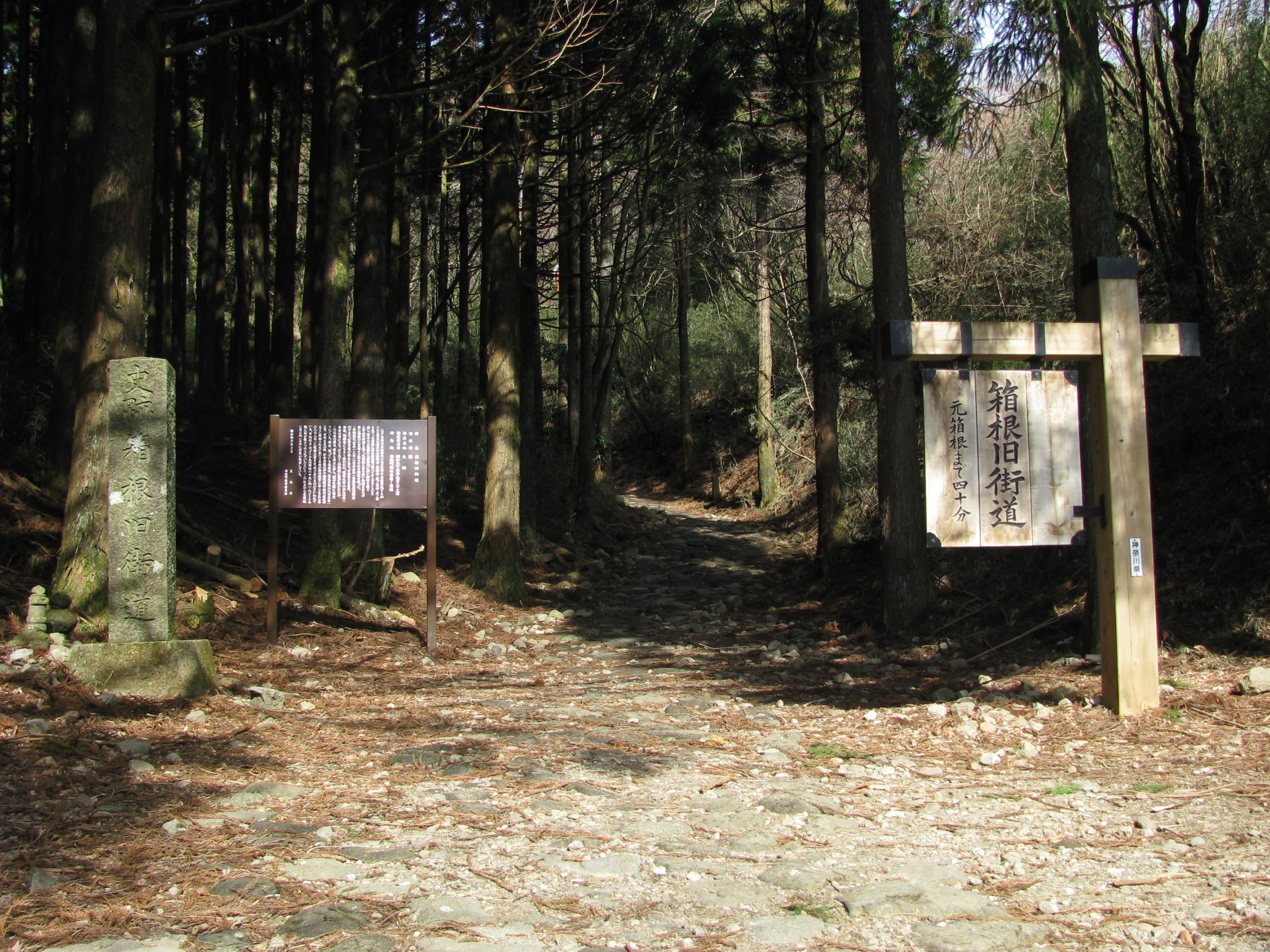 The Old Tōkaidō. This place is Hakone, Ashigarashimo District, Kanagawa, Japan.